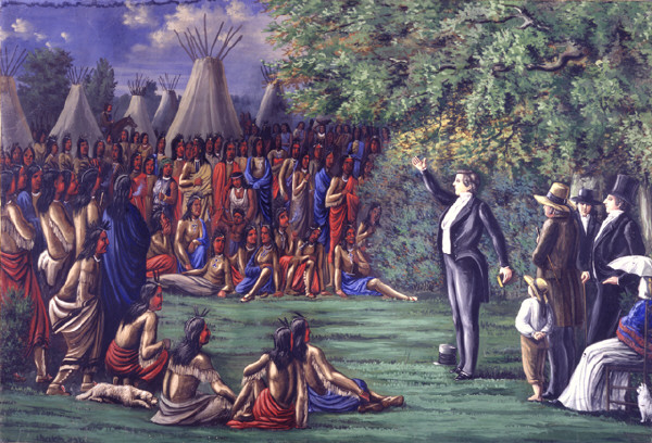 "Joseph Preaching to the Indians" by C.C.A. Christensen